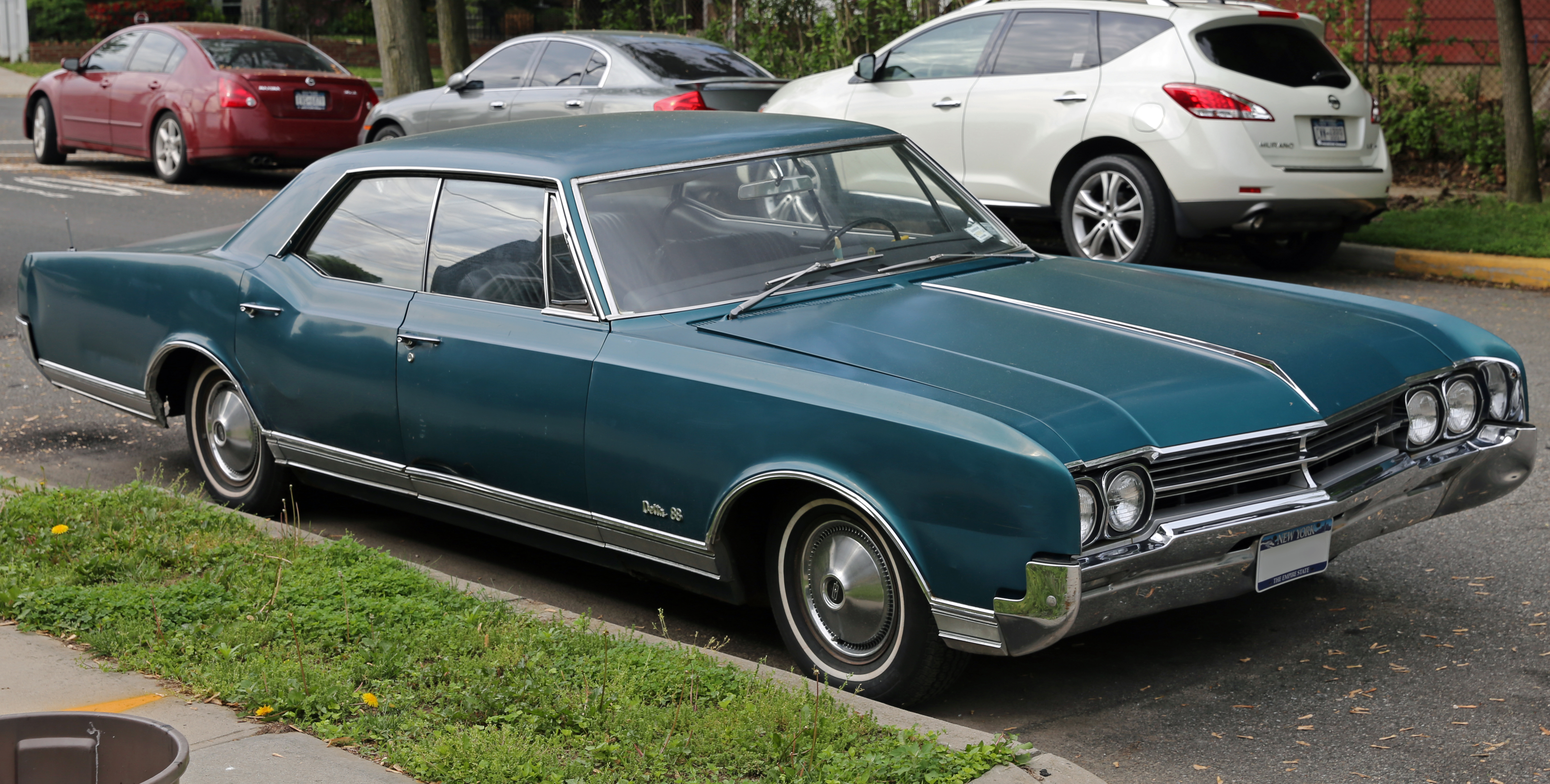 A 1966 Oldsmobile Delta 88 Holiday hardtop 4-door sedan. V8 engine, assembled in Linden, NJ.